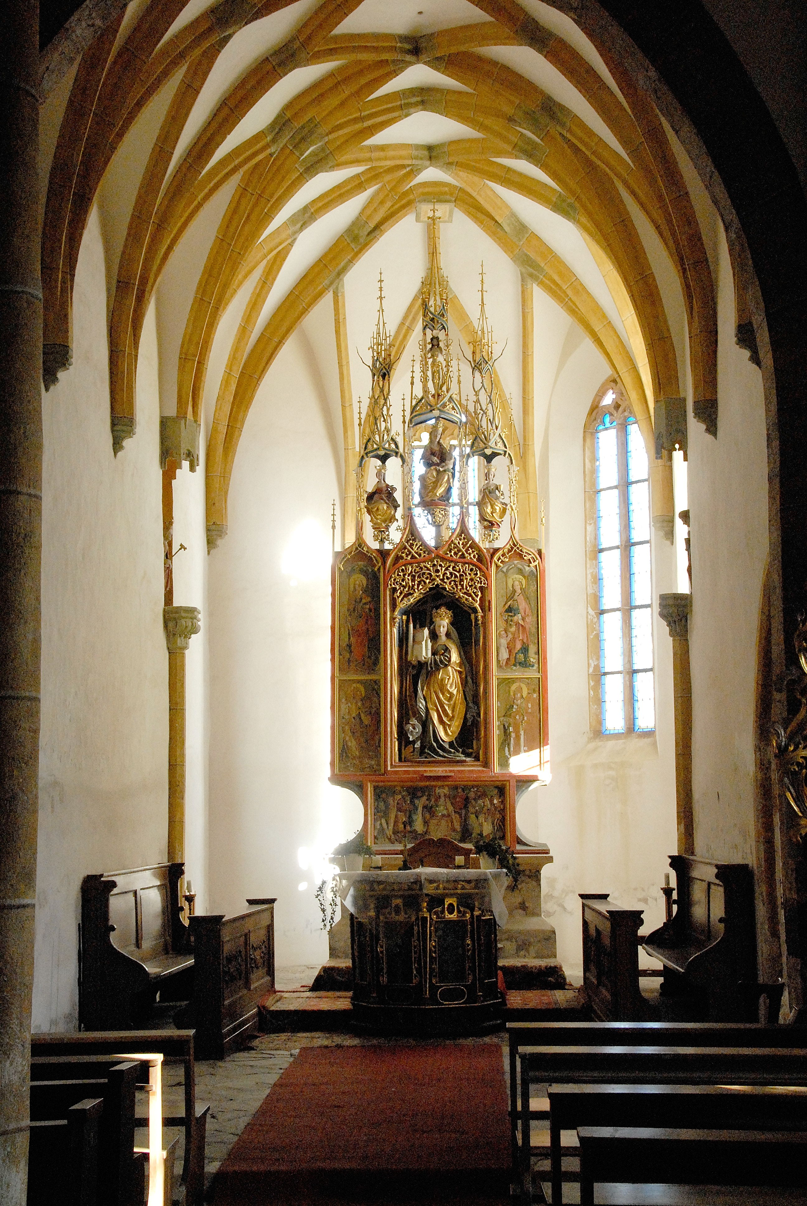 Nave with presbytery of the subsidiary church Saints Helena and Maria Magdalena on top of Mount Magdalena, municipality Magdalensberg, district KlagenfurtLand, Carinthia, Austria